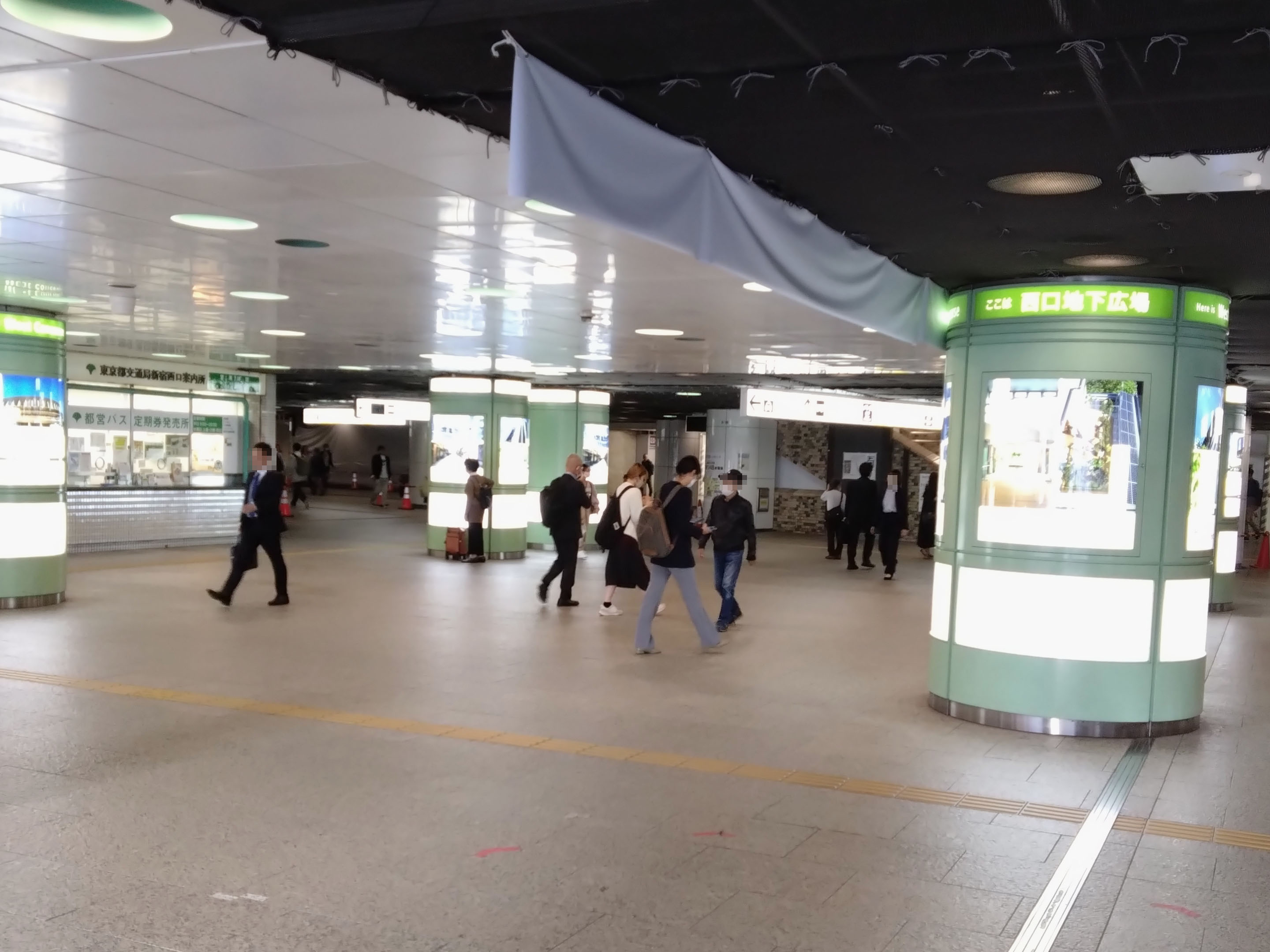 Renovated west basement hall of Shinjuku station, May 2012.